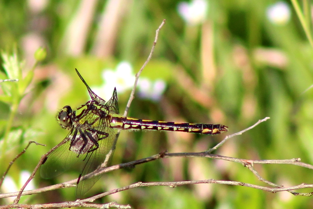 Maine Snaketail (Ophiogomphus mainensis), Rhode Island, US